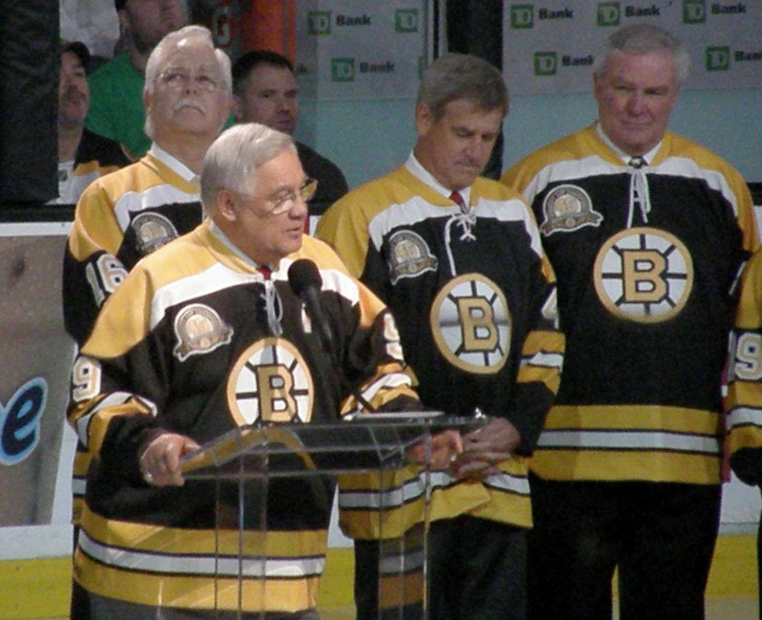 Bucyk (rear: Sanderson, Orr, and Ken Hodge. Pittsburgh Penguins at (vs) Boston Bruins, TD Banknorth Garden (Boston Garden), March 18, 2010